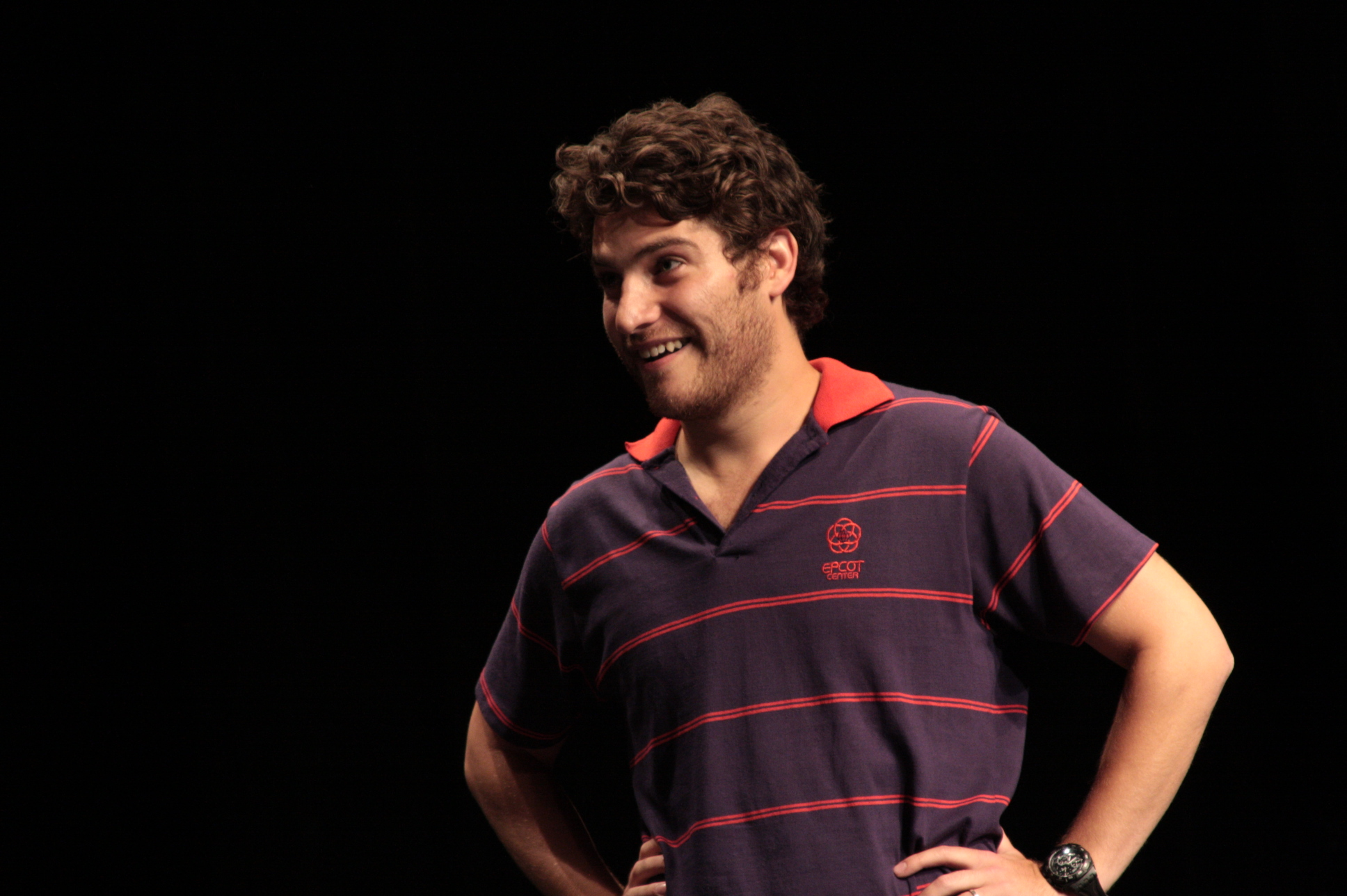 Adam Pally perfomed at the Upright Citizens Brigade Theatre in 2008